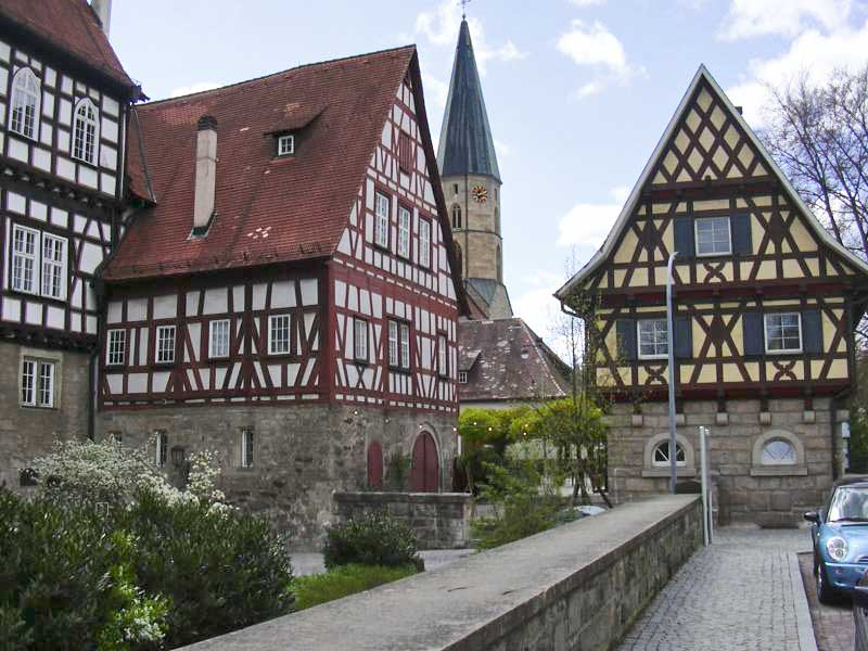 Castle and church in Gaildorf, Germany